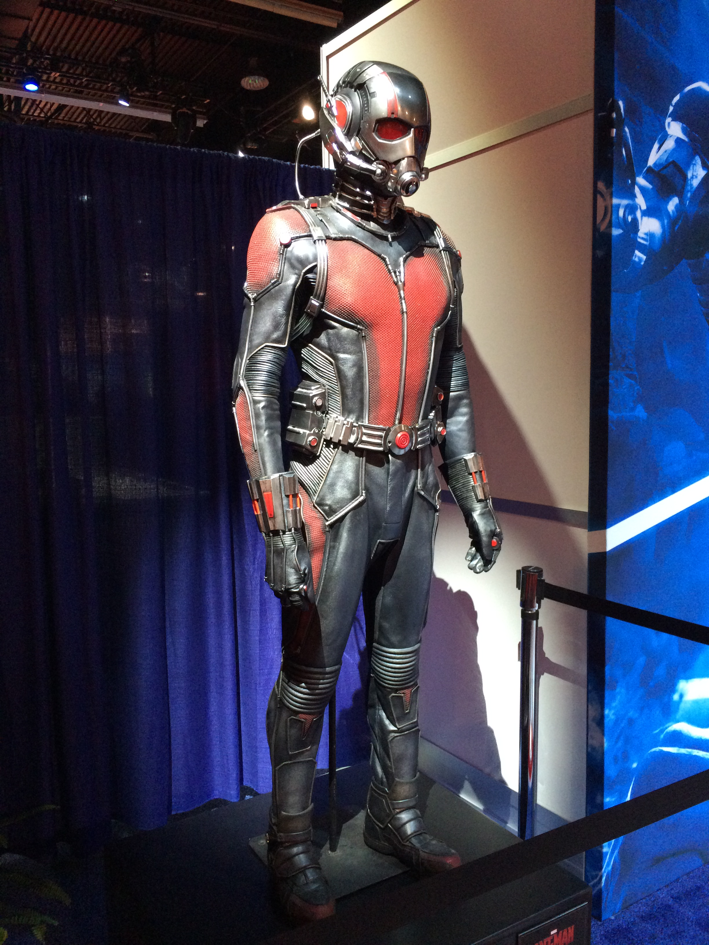 D23 Expo 2015 Ant-Man